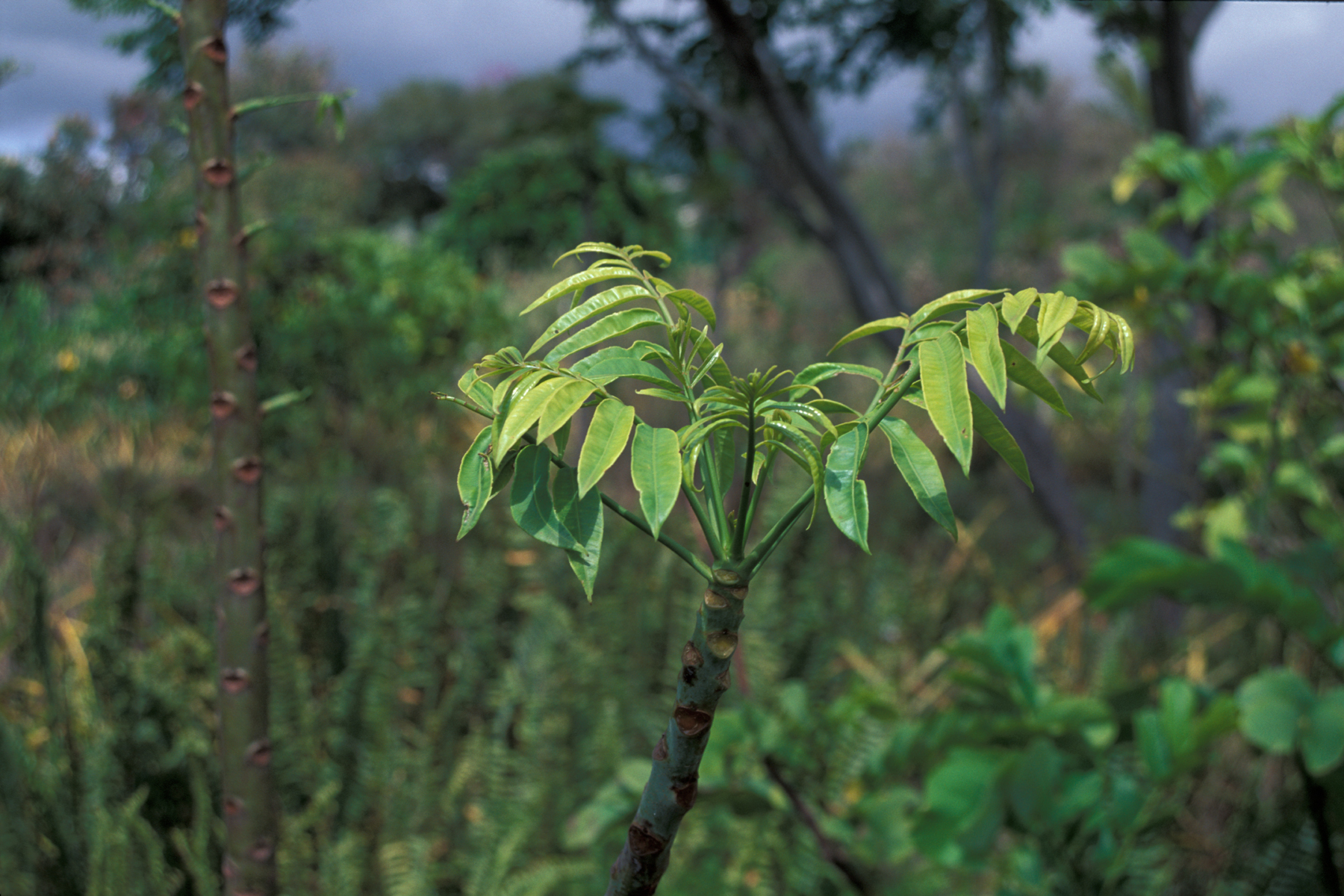 Spondias dulcis (habit). Location: Maui, Enchanting Floral Gardens of Kula